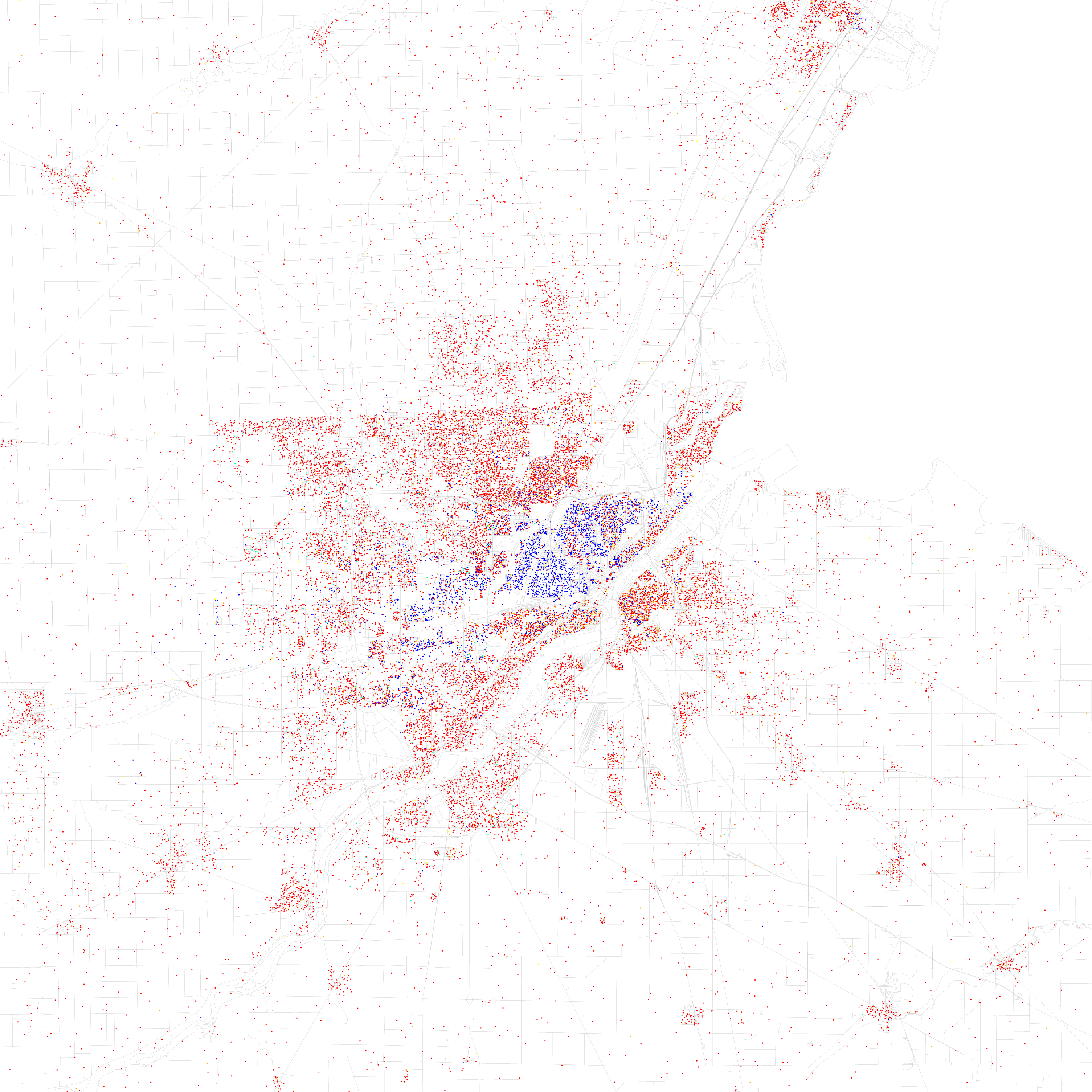 Maps of racial and ethnic divisions in US cities, inspired by Bill Rankin's map of Chicago, updated for Census 2010. Red is White, Blue is Black, Green is Asian, Orange is Hispanic, Yellow is Other, and each dot is 25 residents. Data from Census 2010. Base map © OpenStreetMap, CC-BY-SA